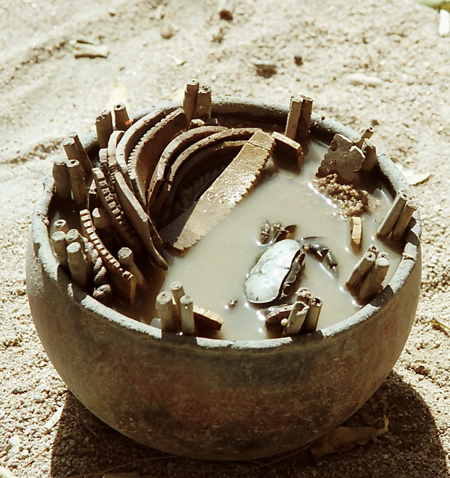 A crab divination pot in Kapsiki. Calabash shards. 2005. Colour version of black-and-white photograph Figure 4, p. 194 in Walter E.A. van Beek and Philip M. Peek (eds.): Reviewing reality. Dynamics of African divination, Lit Verlag Wien, 2013. Crab gens Sudanonautes? Species Sudanonautes africanus (African river crab)?